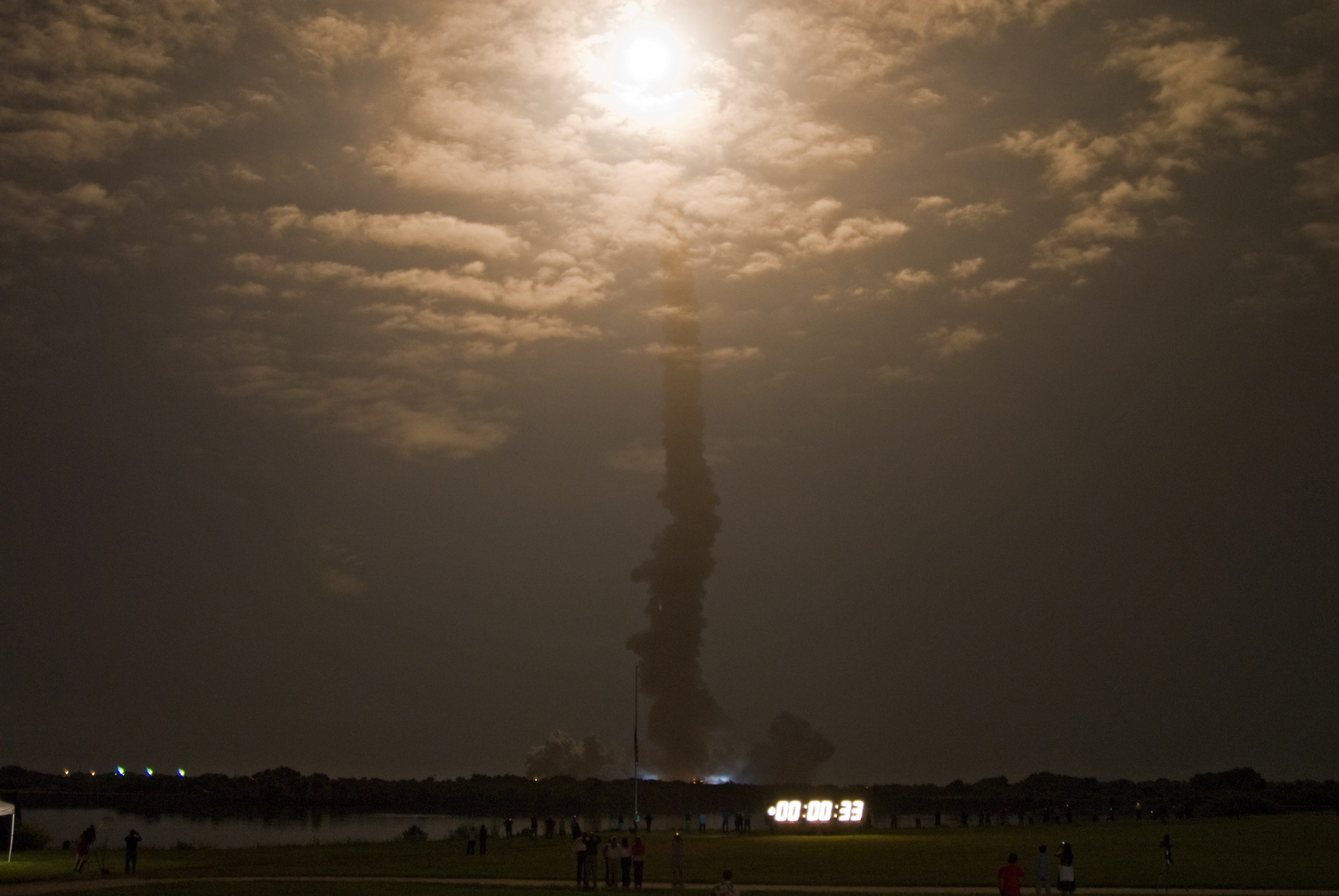 CAPE CANAVERAL, Fla. – At NASA's Kennedy Space Center in Florida, space shuttle Discovery trails a column of smoke as it punches a hole through the fabric of clouds racing through the night sky on the STS-128 mission. Liftoff from Launch Pad 39A was on time at 11:59 p.m. EDT. The first launch attempt on Aug. 24 was postponed due to unfavorable weather conditions. The second attempt on Aug. 25 also was postponed due to an issue with a valve in space shuttle Discovery's main propulsion system. The STS-128 mission is the 30th International Space Station assembly flight and the 128th space shuttle flight. The 13-day mission will deliver more than 7 tons of supplies, science racks and equipment, as well as additional environmental hardware to sustain six crew members on the International Space Station. The equipment includes a freezer to store research samples, a new sleeping compartment and the COLBERT treadmill.